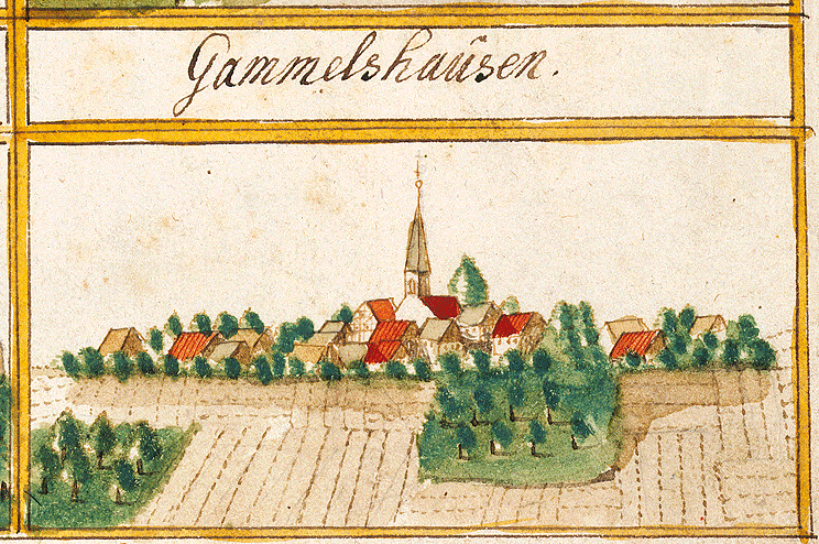 View of Gammelshausen from the forest register books created by Andreas Kieser